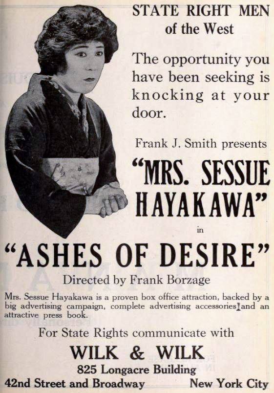 Advertisement for the American drama film The Curse of Iku (1918) under its 1920 reissue title Ashes of Desire with Tsuru Aoki, on page 23 of the May 22, 1920 Exhibitors Herald.